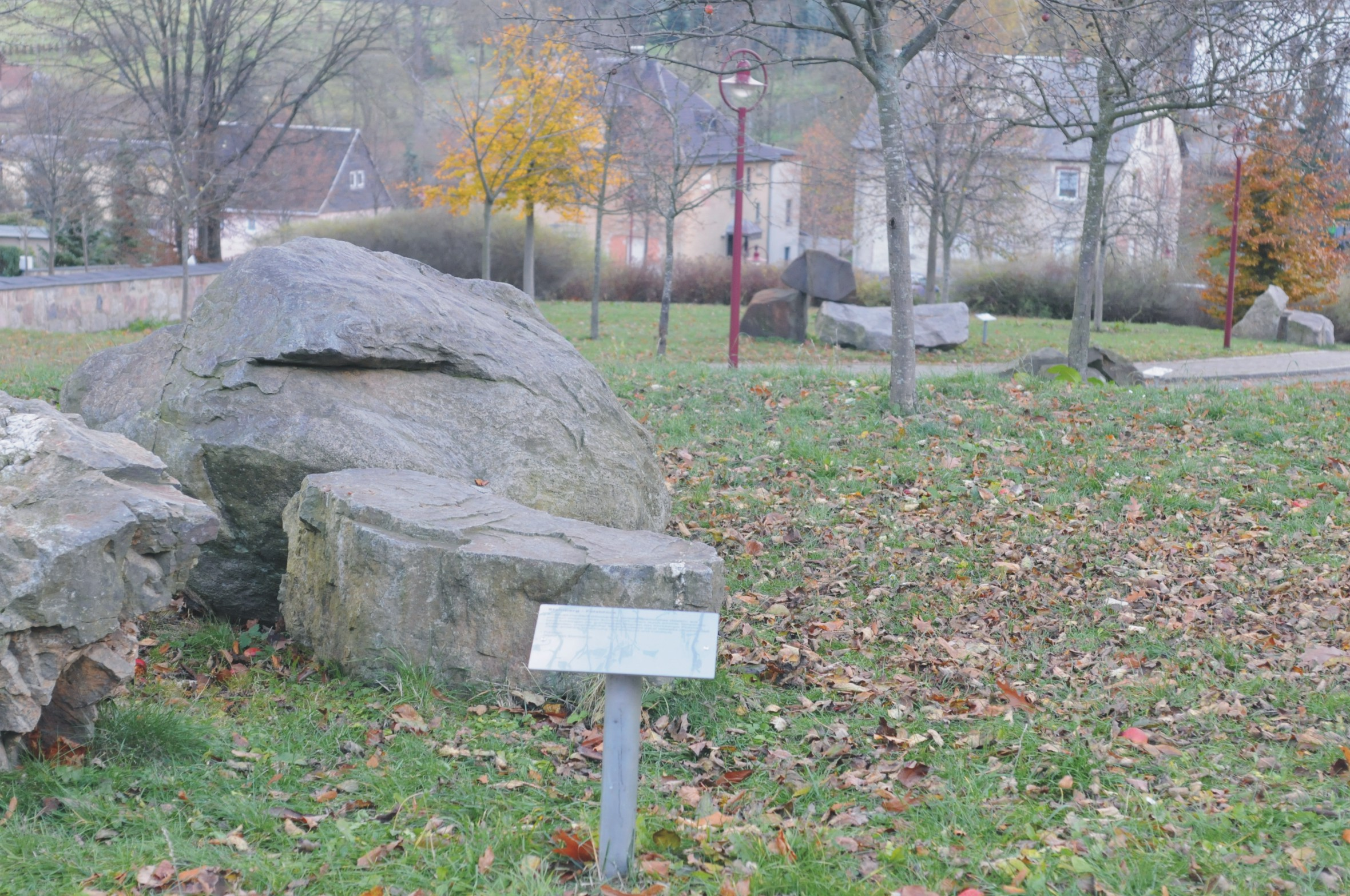 Geopark near the school of Rothenkirchen, municipality Steinberg (Saxony, Germany)